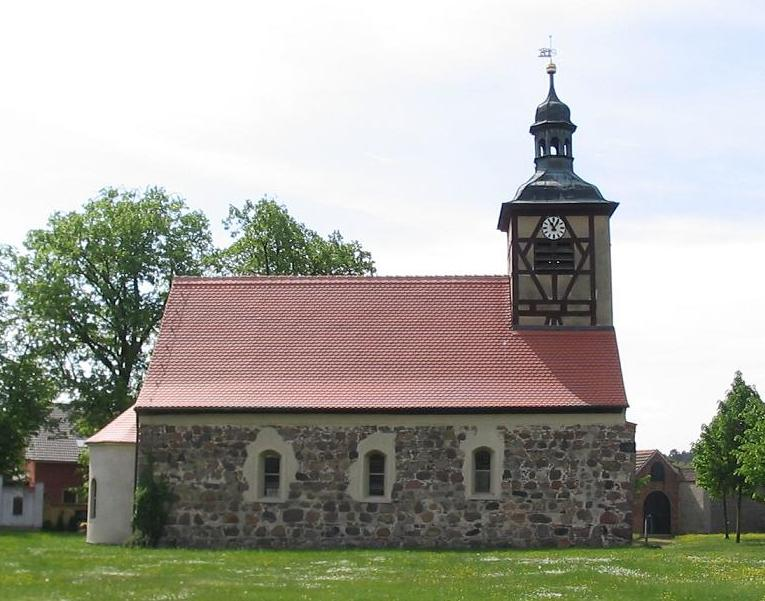 Stonechurch in the village Schwanebeck, built probably in 14th century. Schwanebeck is an incorporated part of the town Belzig in Brandenburg, Germany.